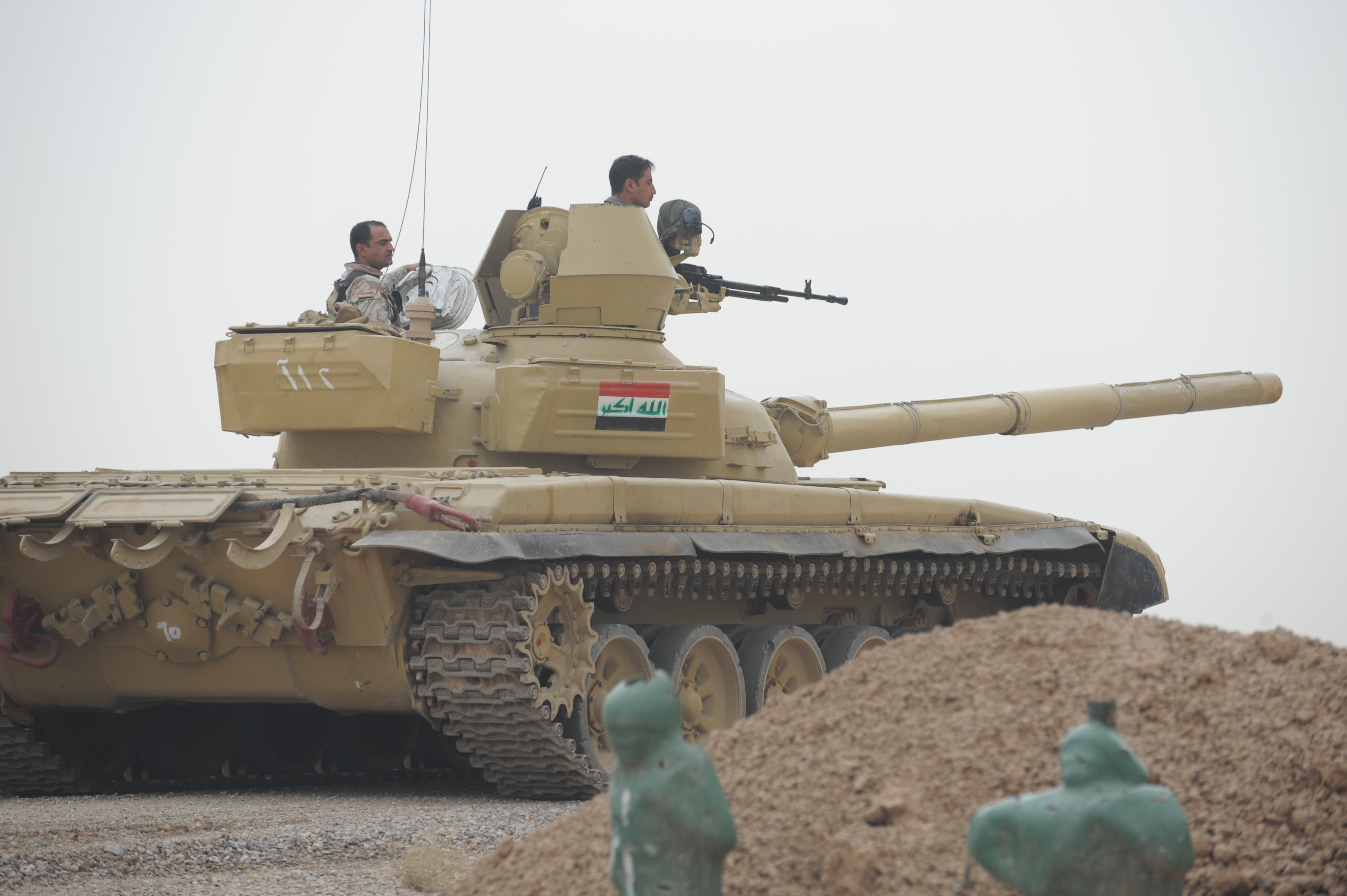 A T-72 tank from 2nd Battalion, 34th Brigade, 9th Iraqi Division moves to a live fire range during a training exercise at the Besmaya Gunnery Range, Iraq, Oct. 29, 2008.